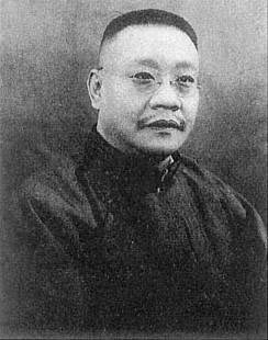 Tan Yankai(1879 - 1930)